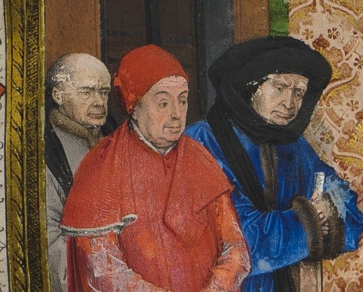 Jean Wauquelin presenting his 'Chroniques de Hainaut' to Philip the Good